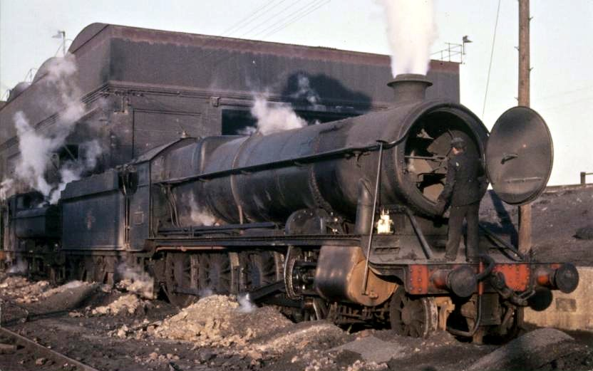 GWR 4700 Class locomotive 4706 at Old Oak Common MPD, London, on 15 December 1963